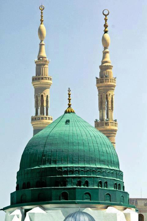 Madina Munawara, Kingdom of Saudi Arabia.